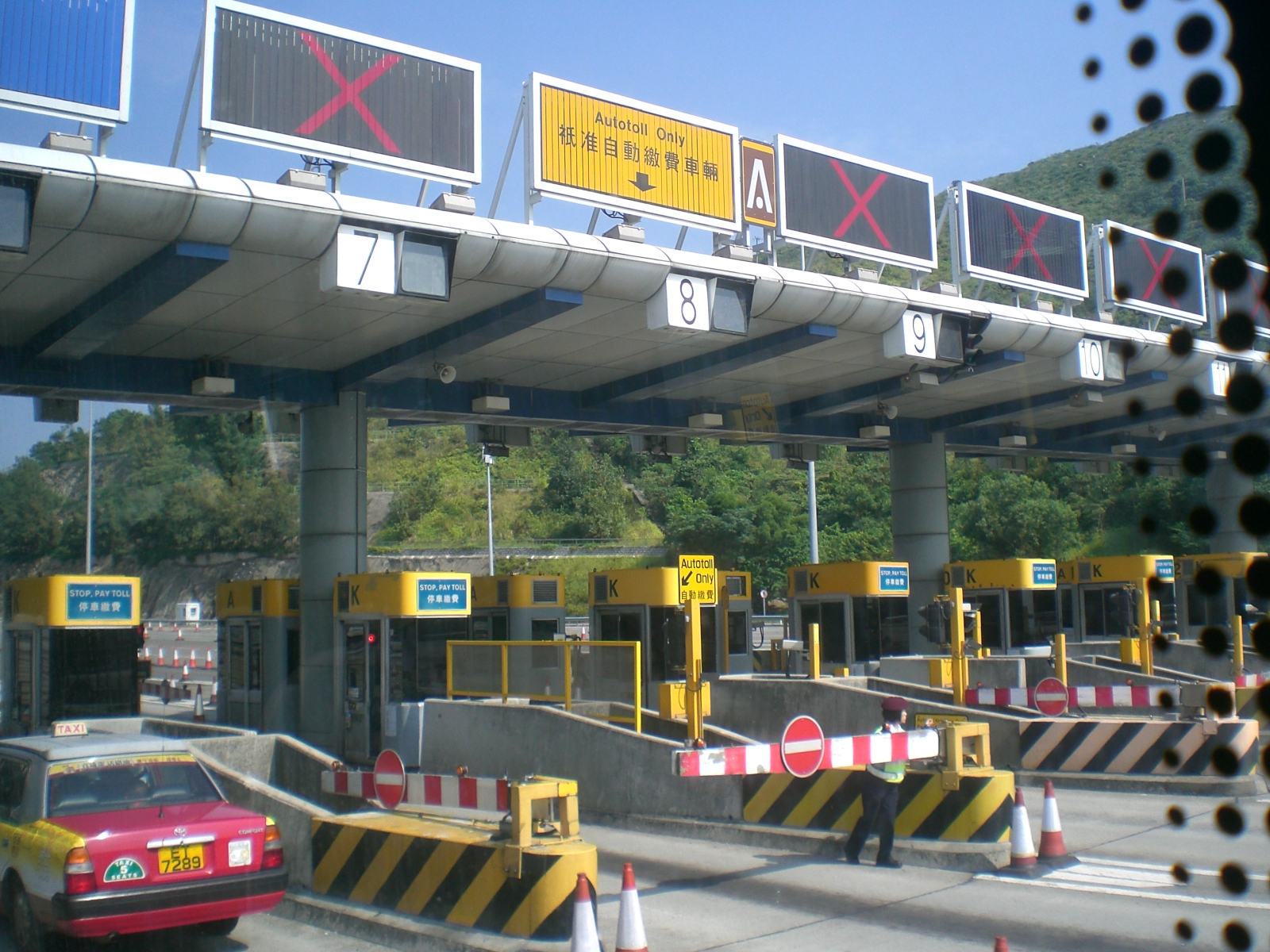 高速公路zh:收費站&快易通在zh:大嶼山